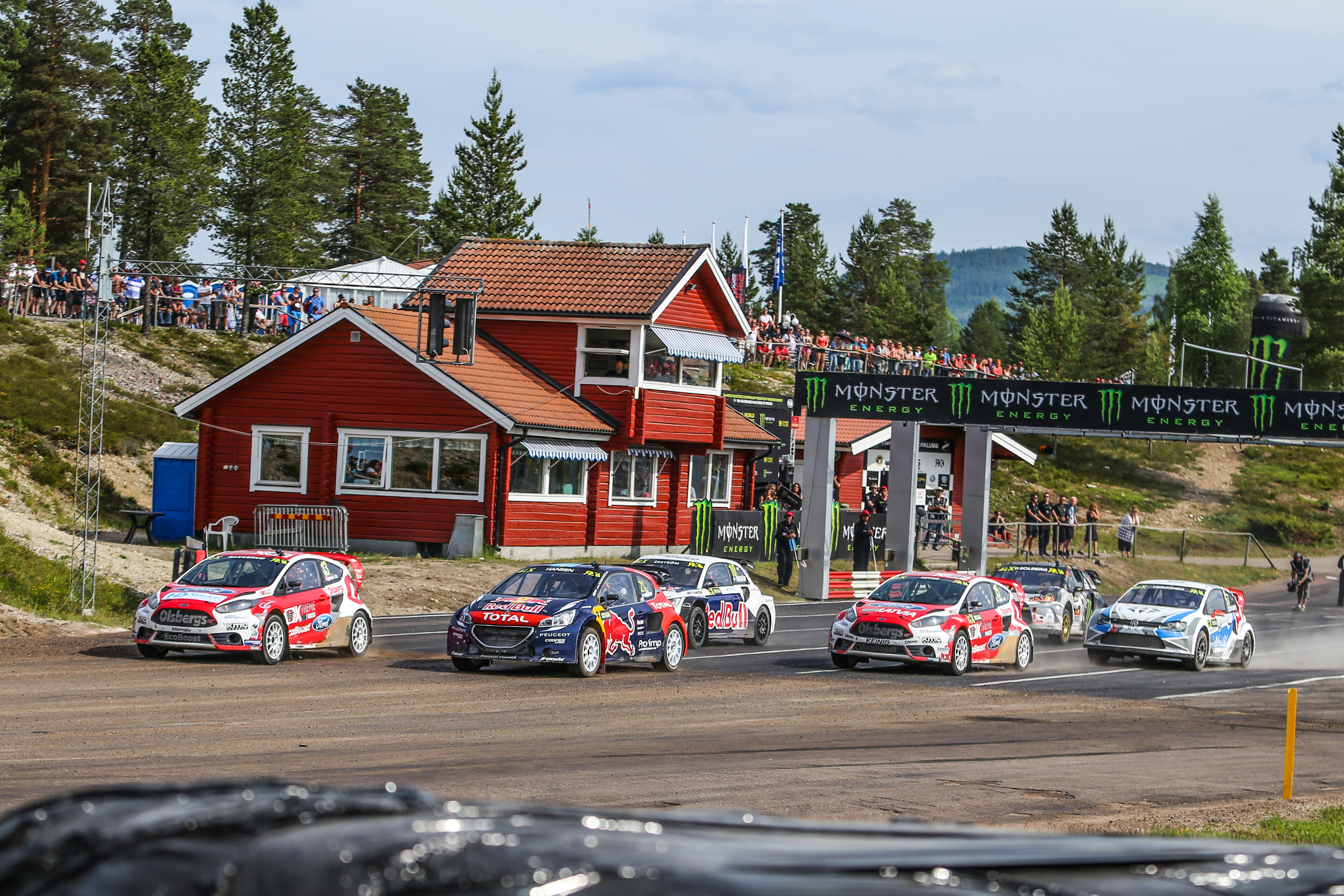 Start of the Supercar A-final at Round 6 of the 2015 FIA World Rallycross Championship at Höljesbanan, Sweden. From left to right: Andreas Bakkerud (Ford), Timmy Hansen (Peugeot), Mattias Ekström (Audi), Reinis Nitišs (Ford), Toomas Heikkinen (Volkswagen) and Petter Solberg (Citroën).